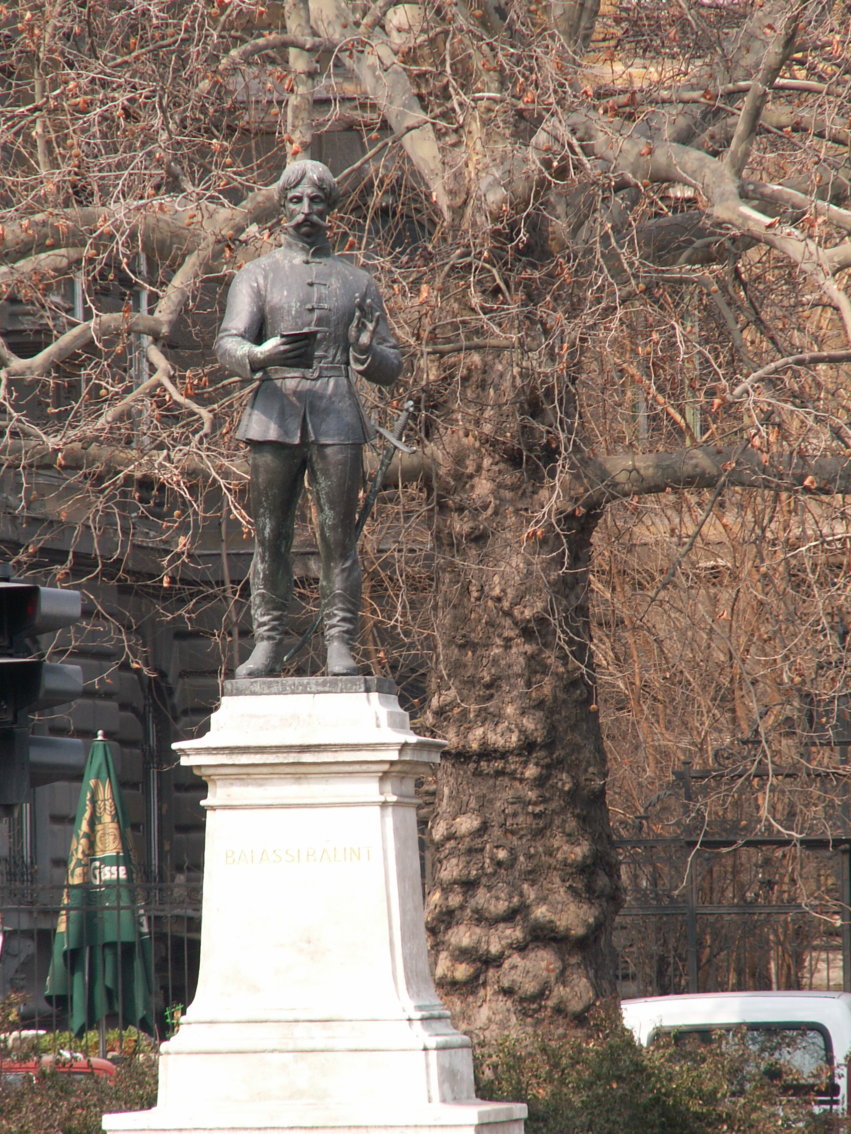 photo of the Balassi Bálint statue in the Kodály Körönd taken by Gregory Marton, 2005-Mar-25